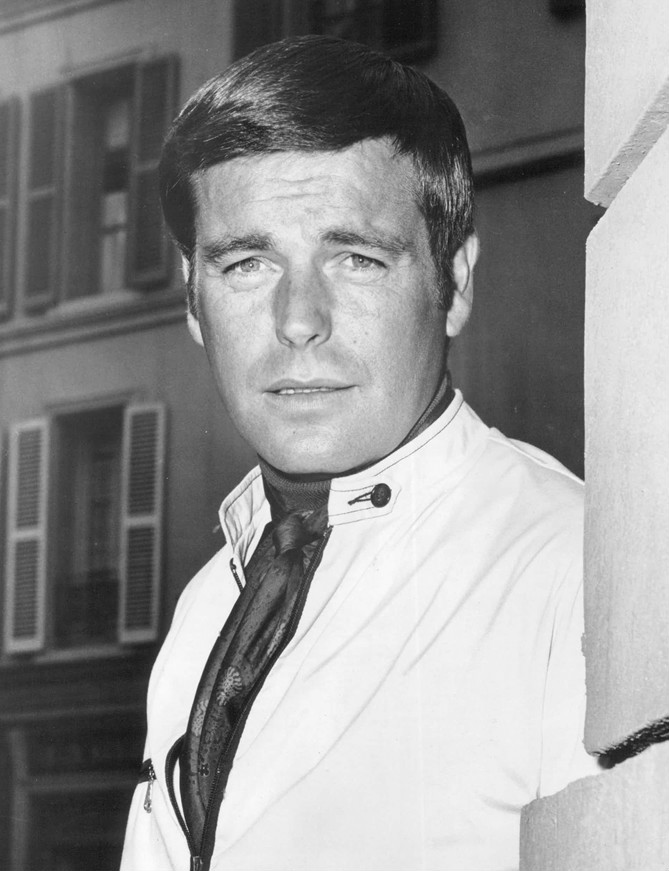 Photo of Robert Wagner as Alexander Mundy from the television program It Takes a Thief.